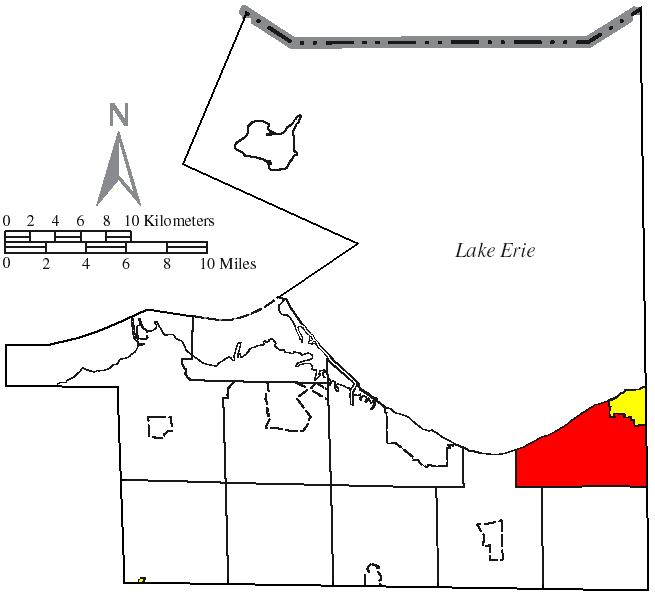 Made by the US Census and modified by myself